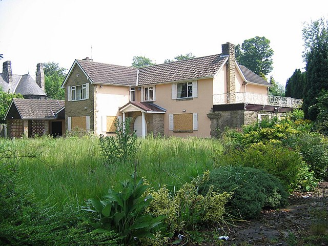 Beechcroft, Broomside Lane - awaiting demolition. Used as a setting in the 1971 gangster film Get Carter starring Michael Caine, Beechcroft has fallen into disrepair and planning permission has been given for it to be demolished and replaced by 12 homes.